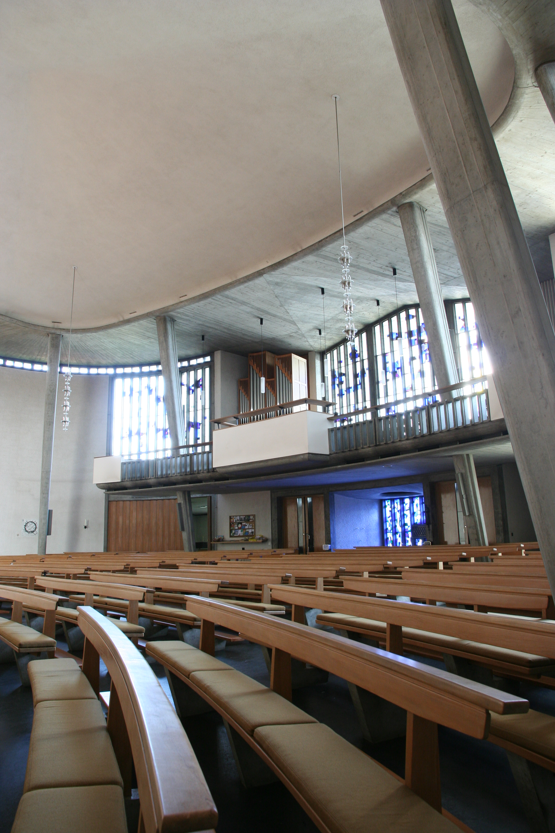 Church Bruder Klaus Gerlafingen, Switzerland